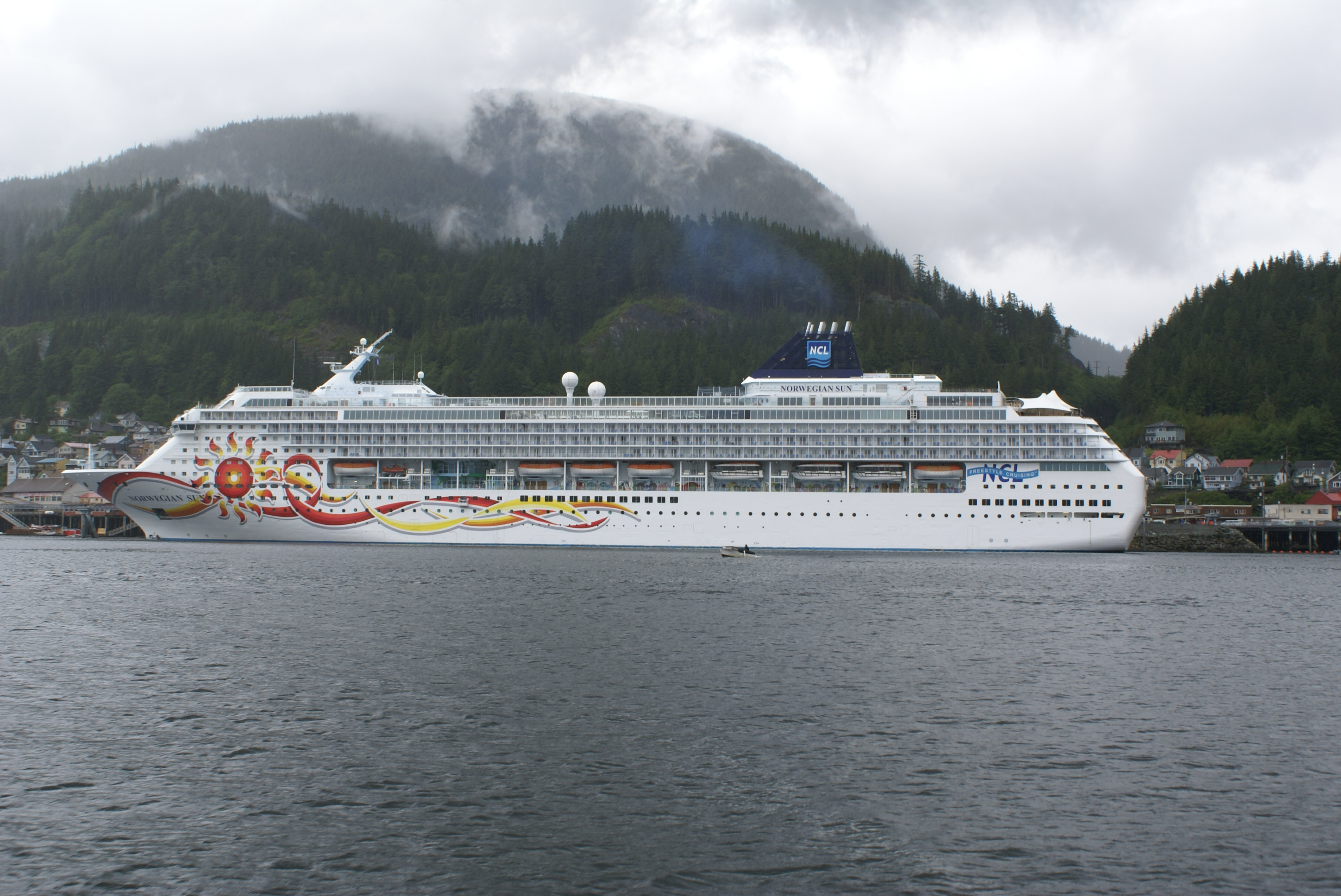 Ship Norwegian Sun Docked in Ketichikan, Alaska (a Richard Martin photograph).